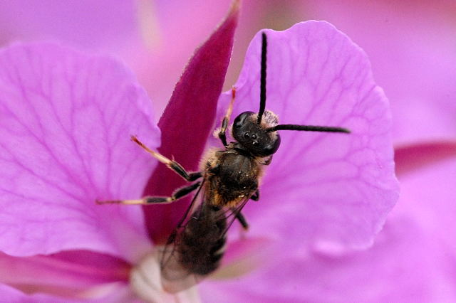 Lasioglossum malachurum from Commanster, Belgian High Ardennes .